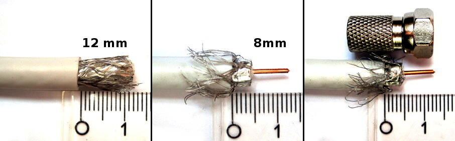 Assembly of antenna F connector